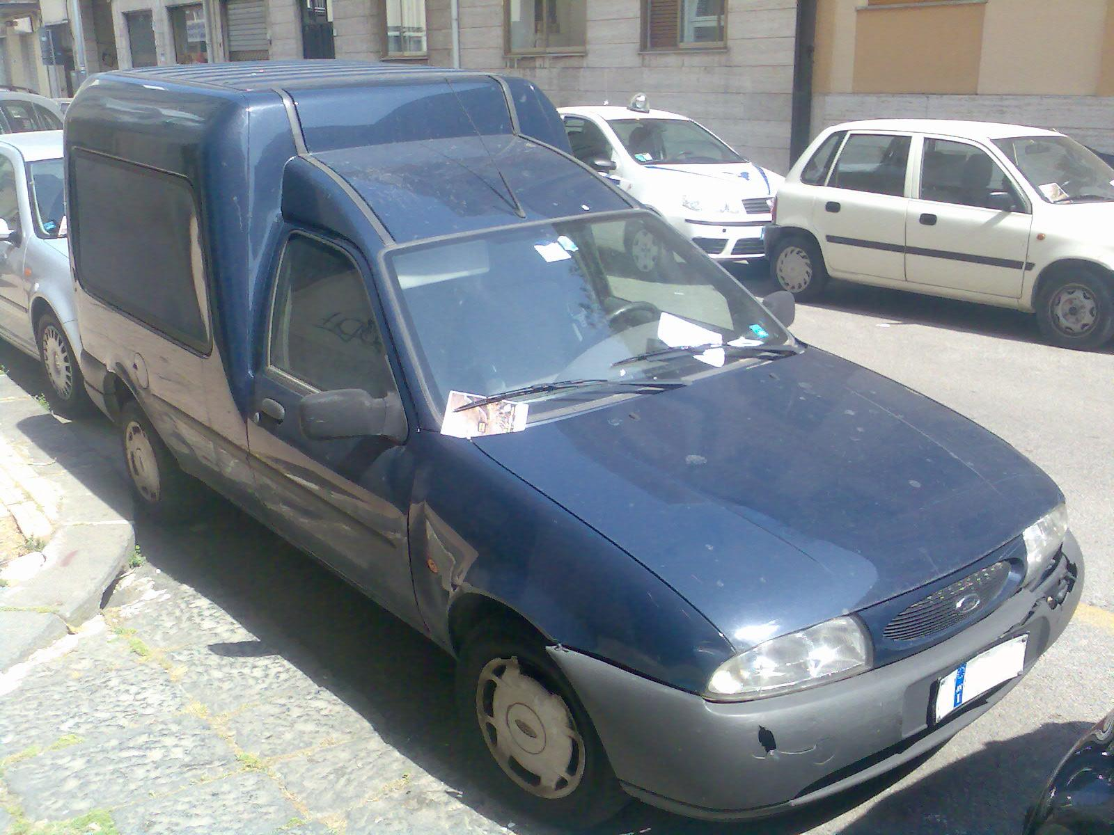 A Ford Courier in Avellino (Italy)